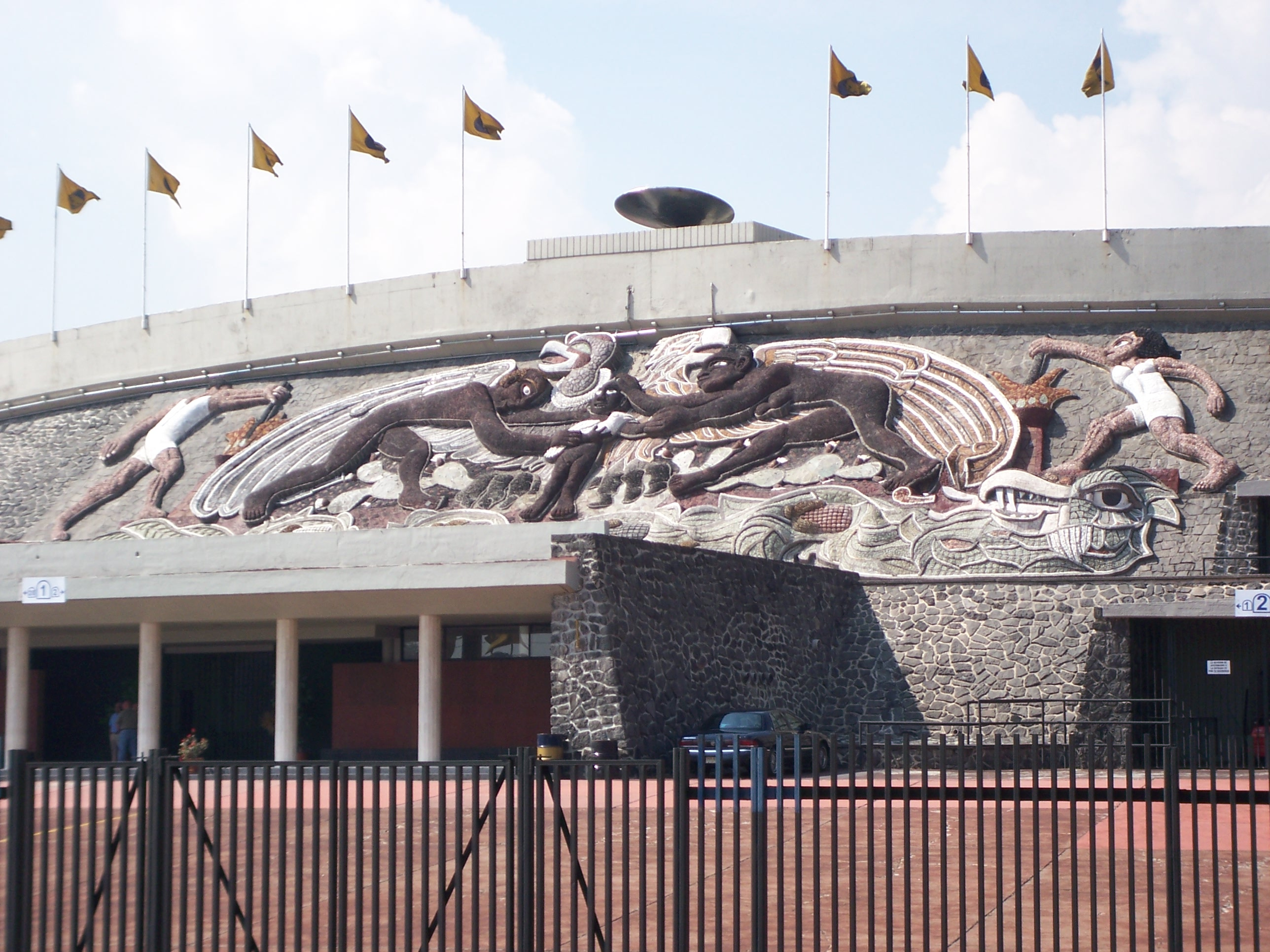 1968 Mexico City Olympic Stadium